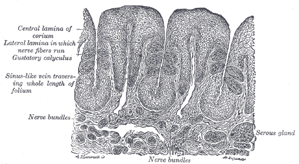 Vertical section of papilla foliata of the rabbit, passing across the folia. (Ranvier.)